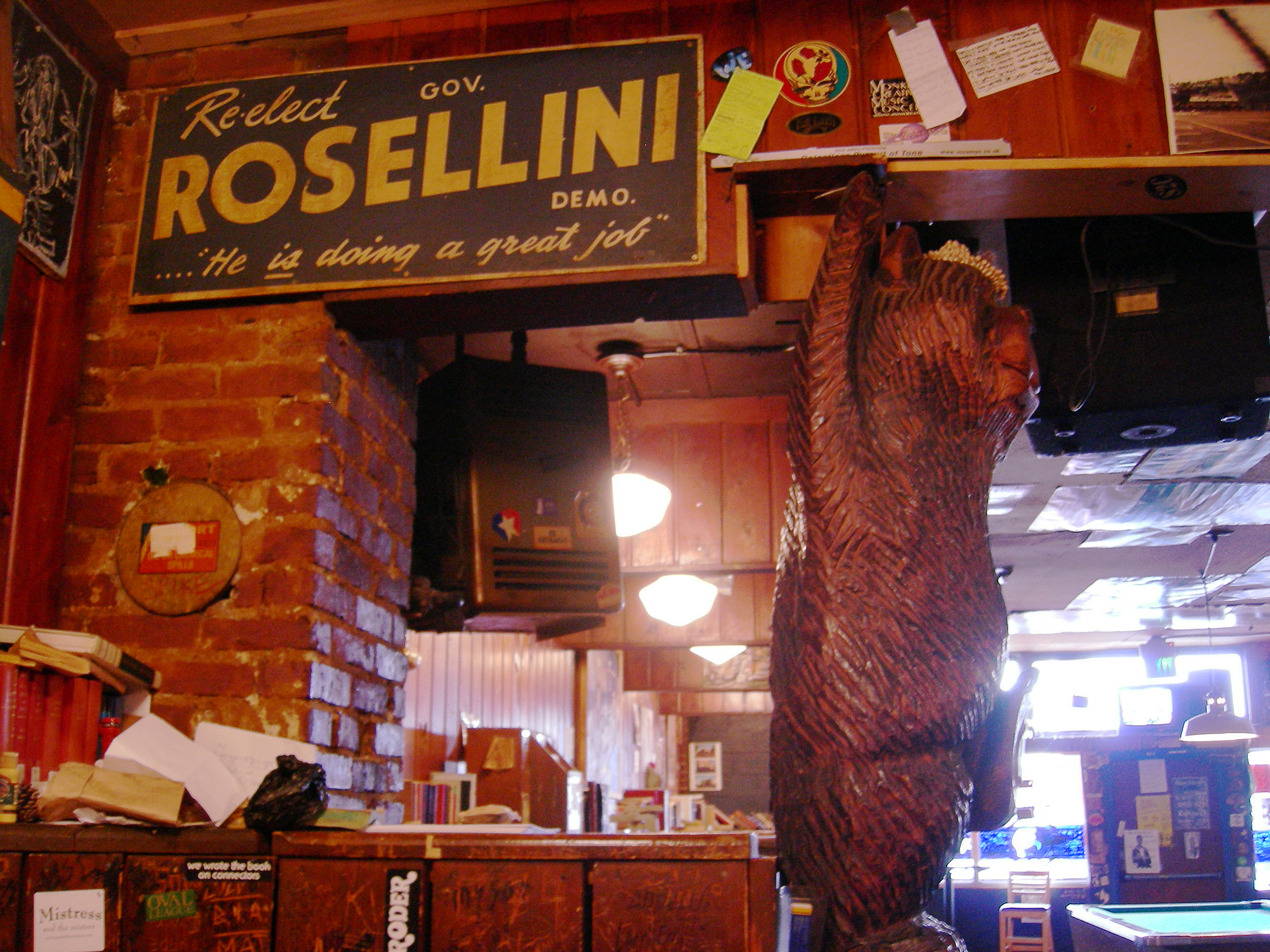 Interior, Blue Moon Tavern, University District, Seattle, Washington. The campaign sign is for Albert Rosellini, who was a liberal Democratic Washington State governor in the 1960s. The chainsaw sculpture of a bear is a permanent fixture of the room.